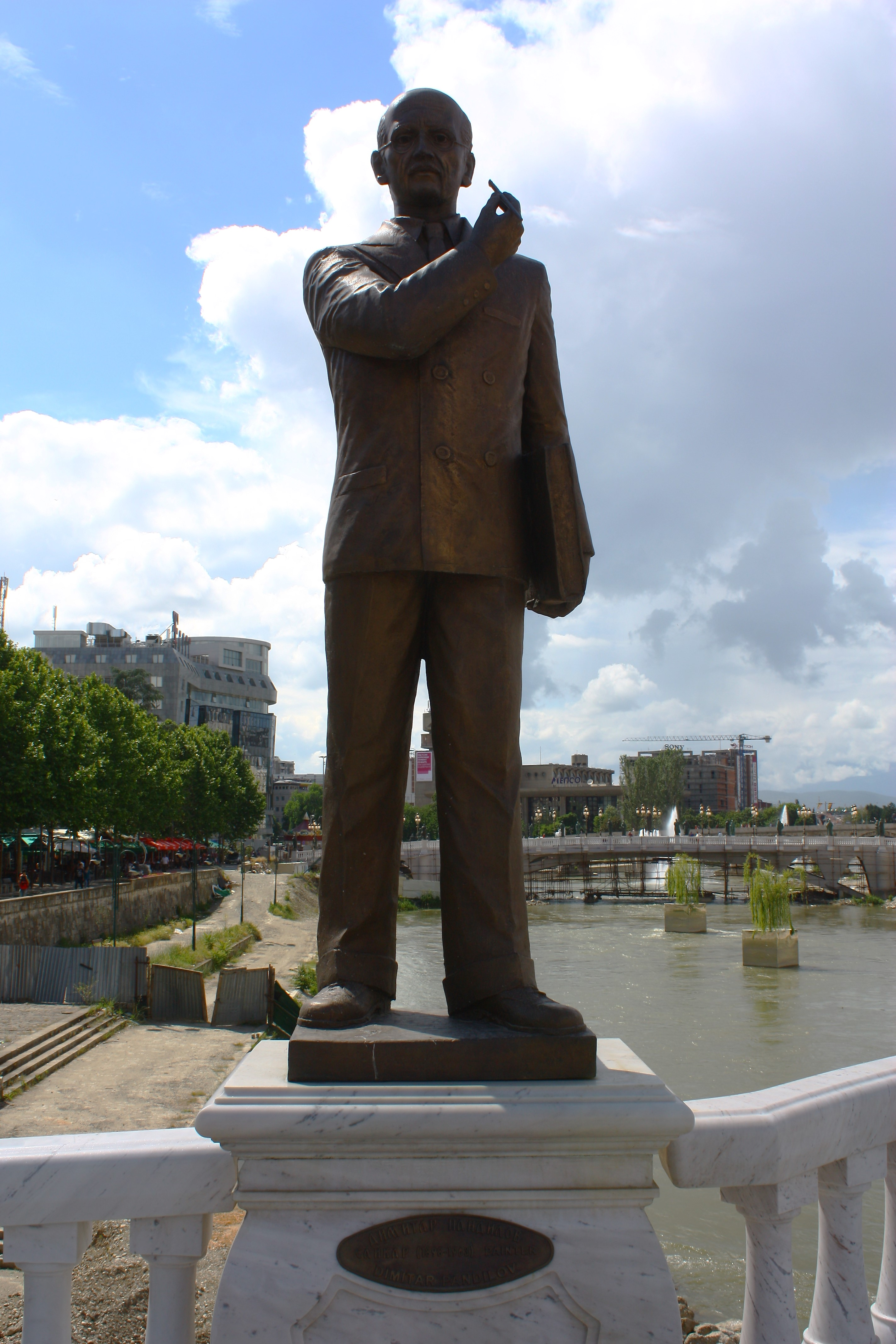 Sculpture od the Bridge of Arts in Skopje, Macedonia This image is uploaded as part of the picture contest Wiki Loves Cultural Heritage in Macedonia 2013. English | македонски | +/−